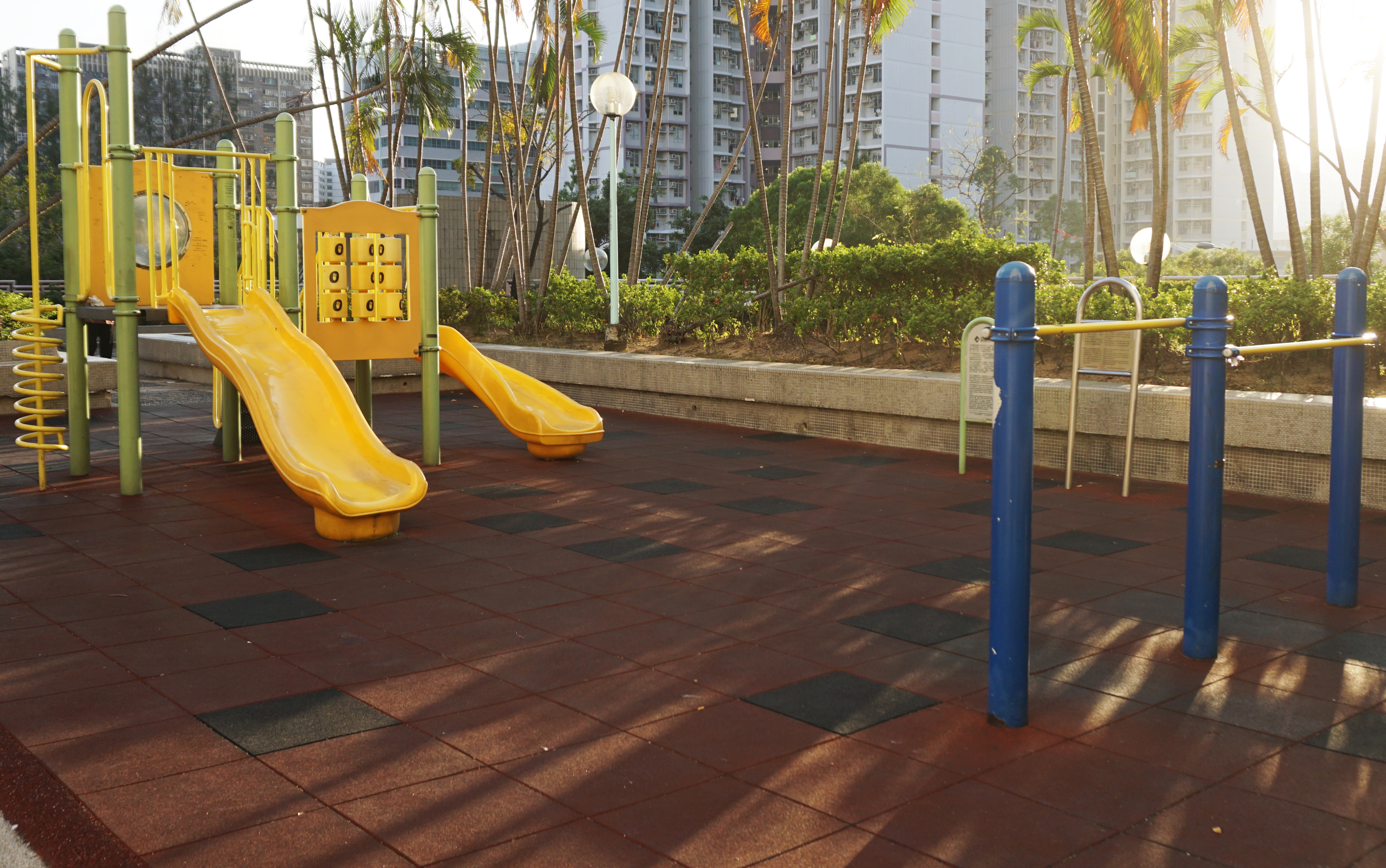 Chuk Yuen South Estate in Wong Tai Sin, Hong Kong.